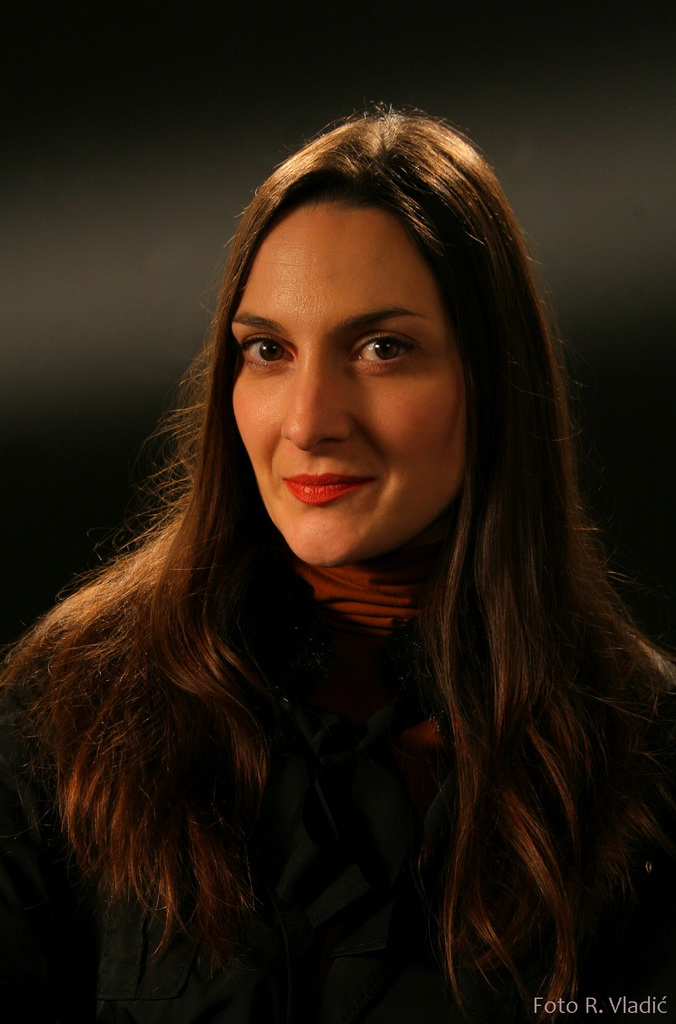 Milica Bajic Djurov, portrait Српски (ћирилица): Милица Бајић Ђуров, портрет